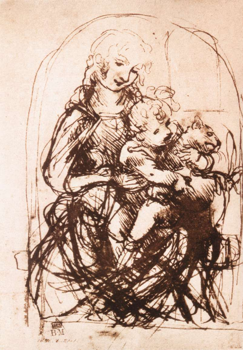 Study of the Virgin and Christ Child with a cat.